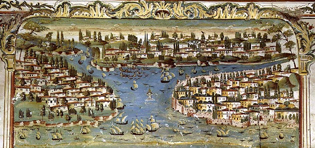 Aivatzis Mansion Fresco